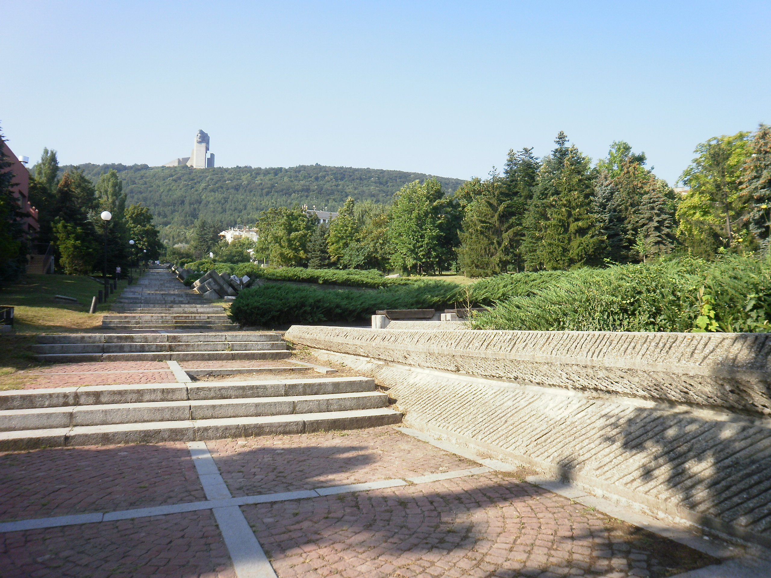 Shumen, Bulgaria